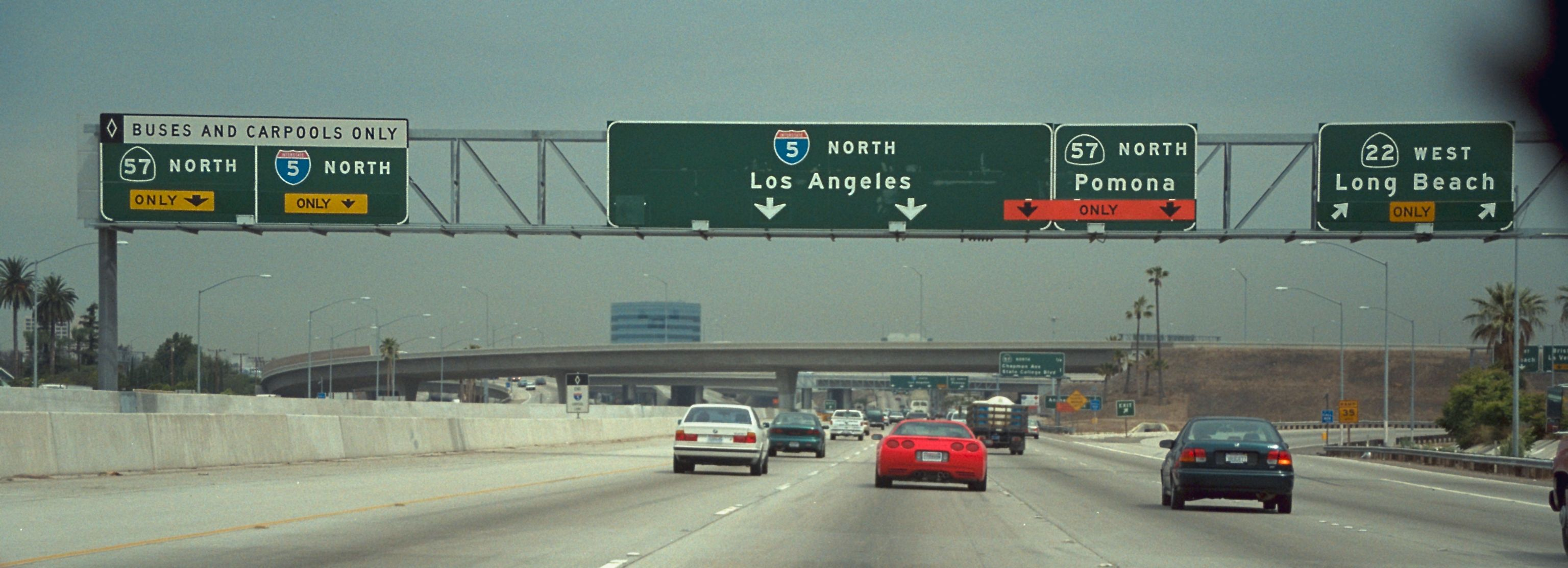 (1999_c_PCD1949_IMG0105_california_edited.jpg)